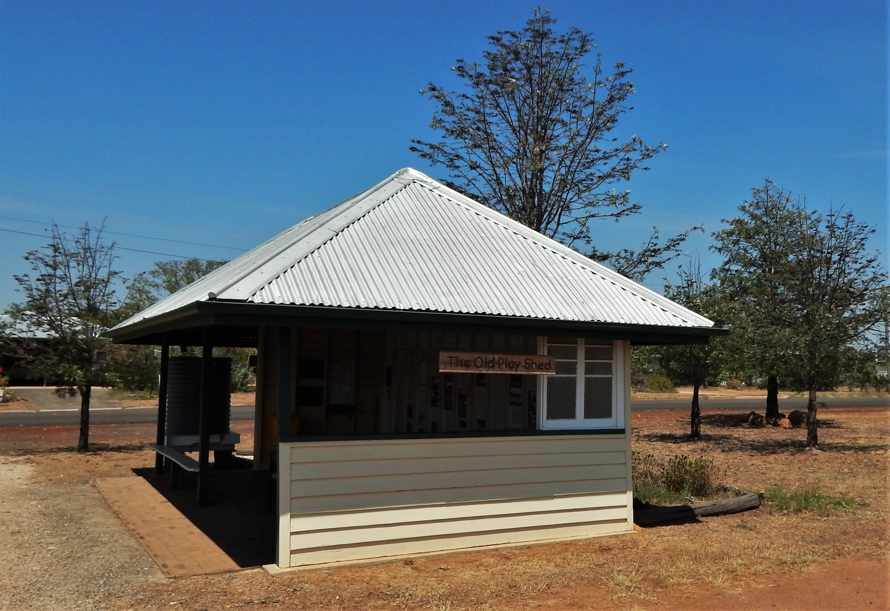 The Tribute to Pioneers display in Jackson, Queensland. The display is located in 'The Old Play Shed' - the original play shed from the local school built in 1908. After the school closed in 1983, the play shed was relocated to its present site in 2002. Following the installation of wall panels featuring the local history of Jackson, the 'Tribute to Pioneers' display was officially opened by local Federal MP Bruce Scott on 10 November 2012.